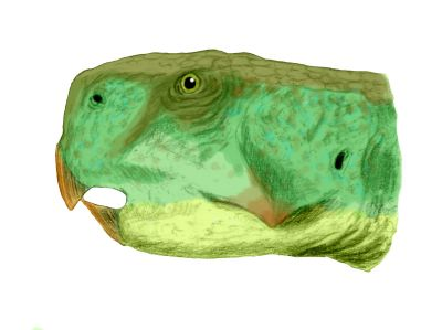 Head of Psittacosaurus lujiatunensis, one of the numerous species of Psittacosaur from the Early Cretaceous of China, pencil drawing